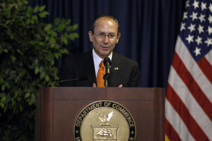 Sergio García de Alba, Mexican Secretary of Economy (2005-2006).